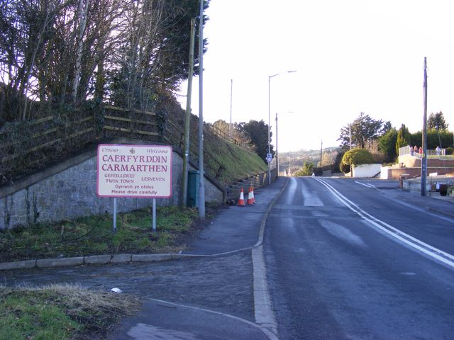 Croeso i Cearfyrddin / Welcome to Carmarthen Welcome to Carmarthen! Abergwili Road looking towards Carmarthen